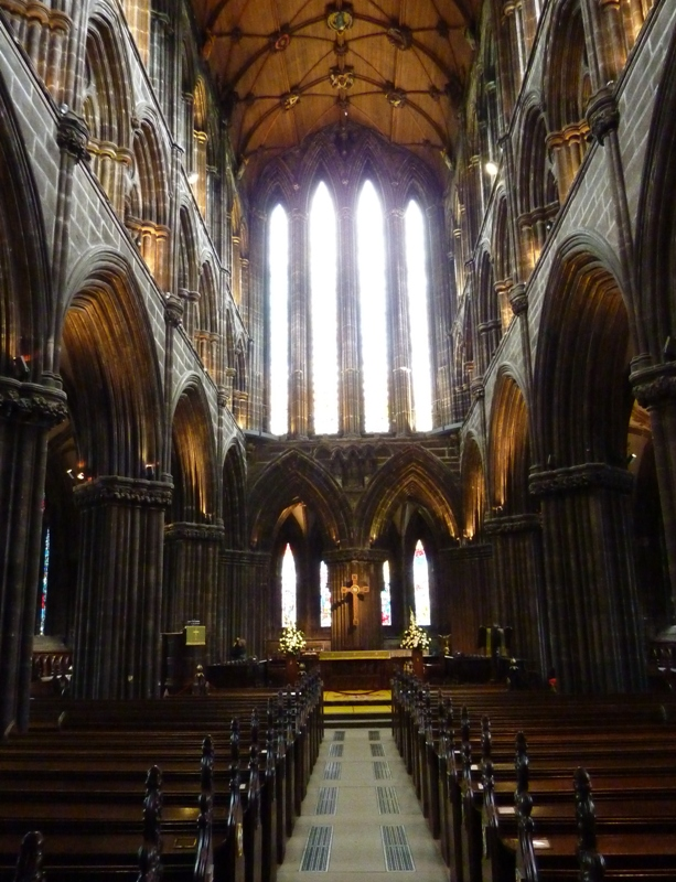 Glasgow Cathedral, Glasgow, Scotland - choir